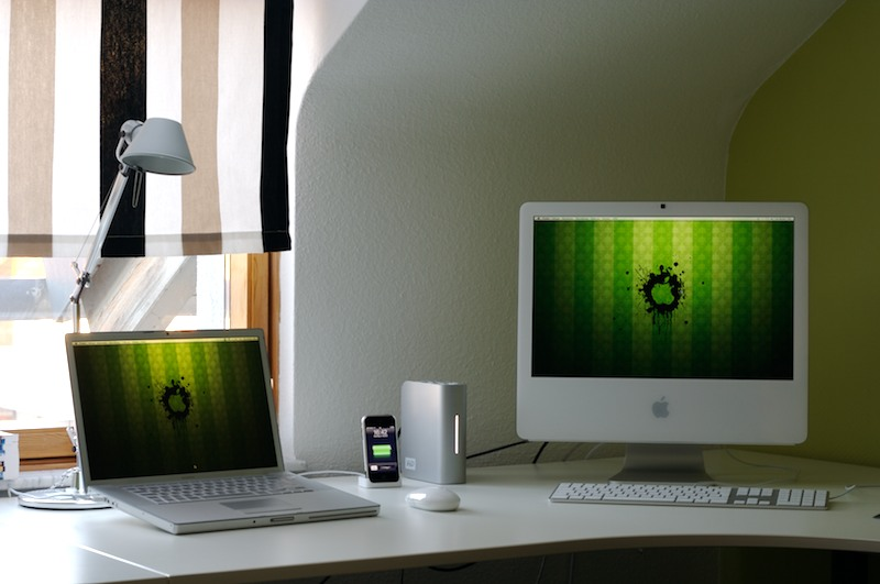 My workspace at home. iMac 20" with a 500GB My Book attached, MacBook Pro and my iPhone. At nighttime an (excessively overpriced) Artemide Tolomeo micro spends the required light.